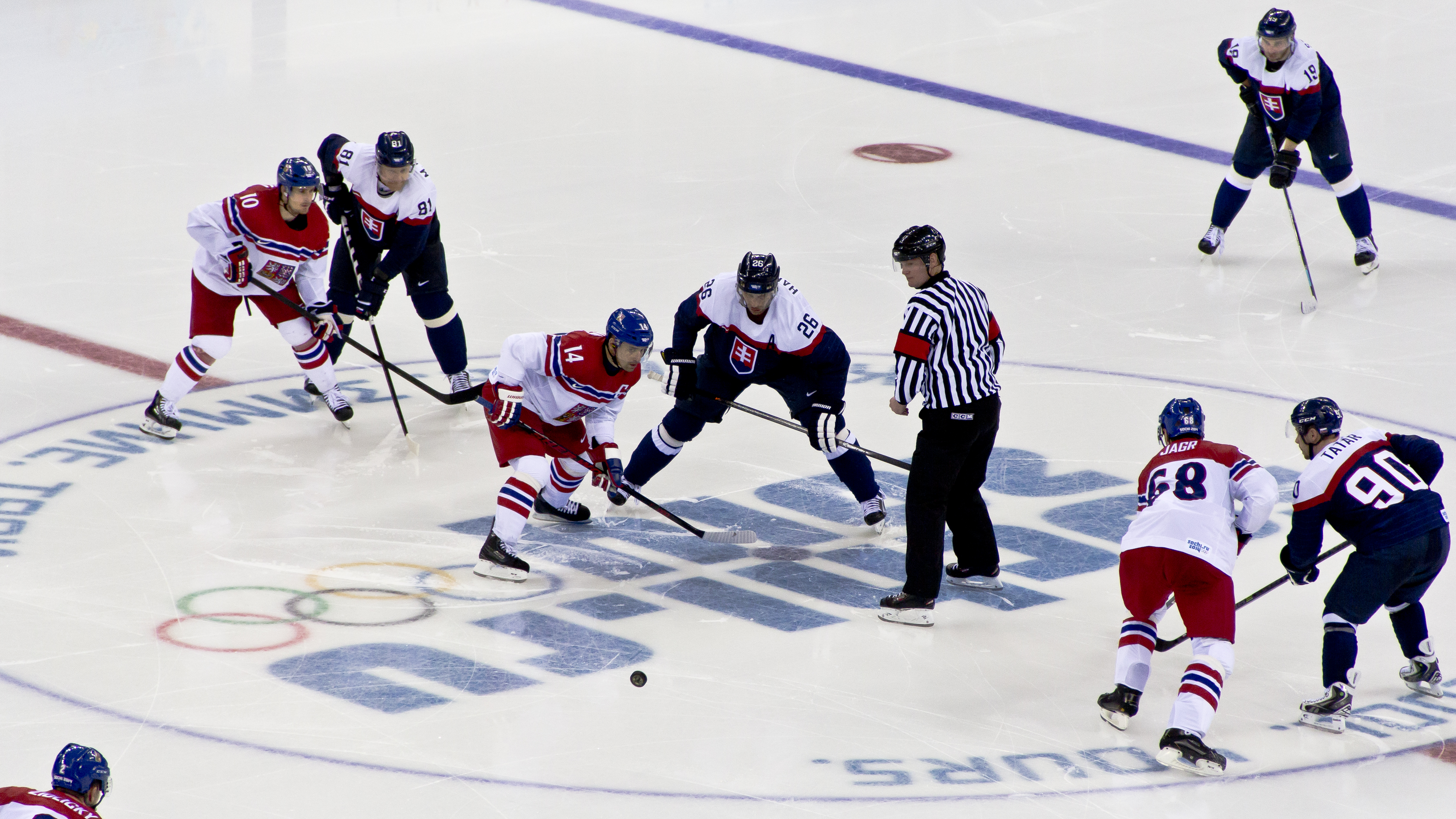 Ice hockey at the 2014 Winter Olympics – Men's tournament Czech Republic vs Slovakia